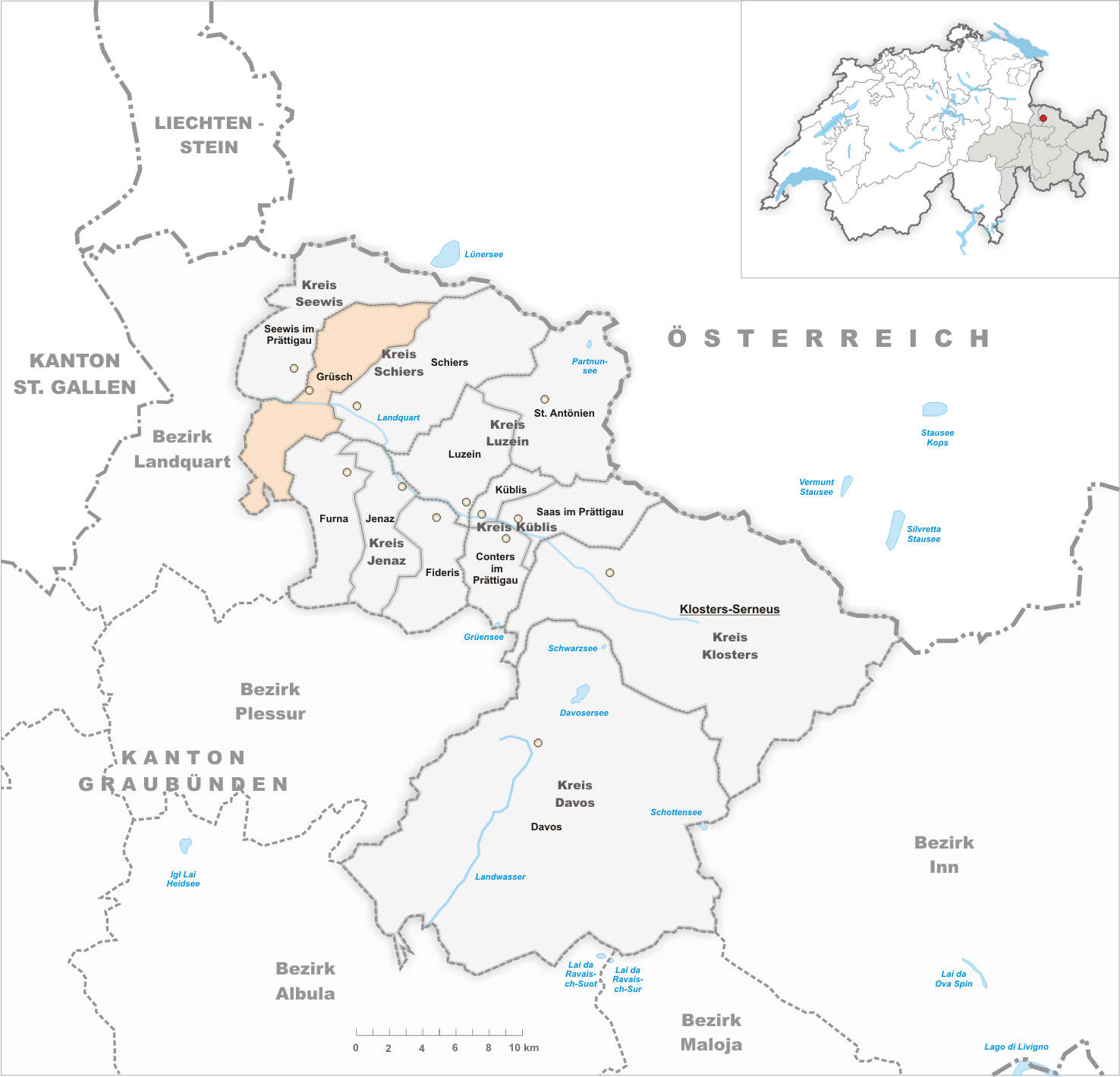 Municipality Grüsch